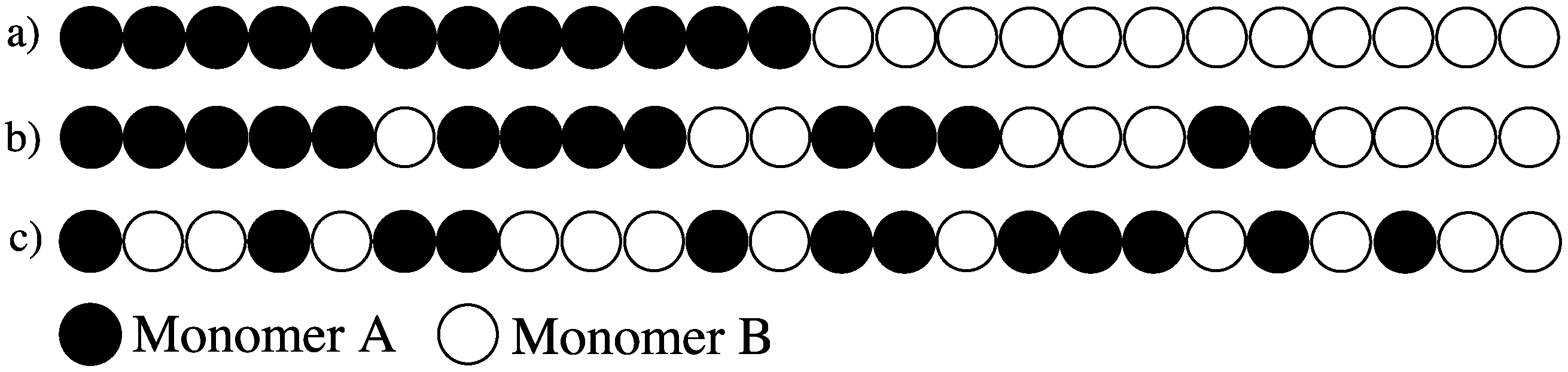 gradient copolymer picture